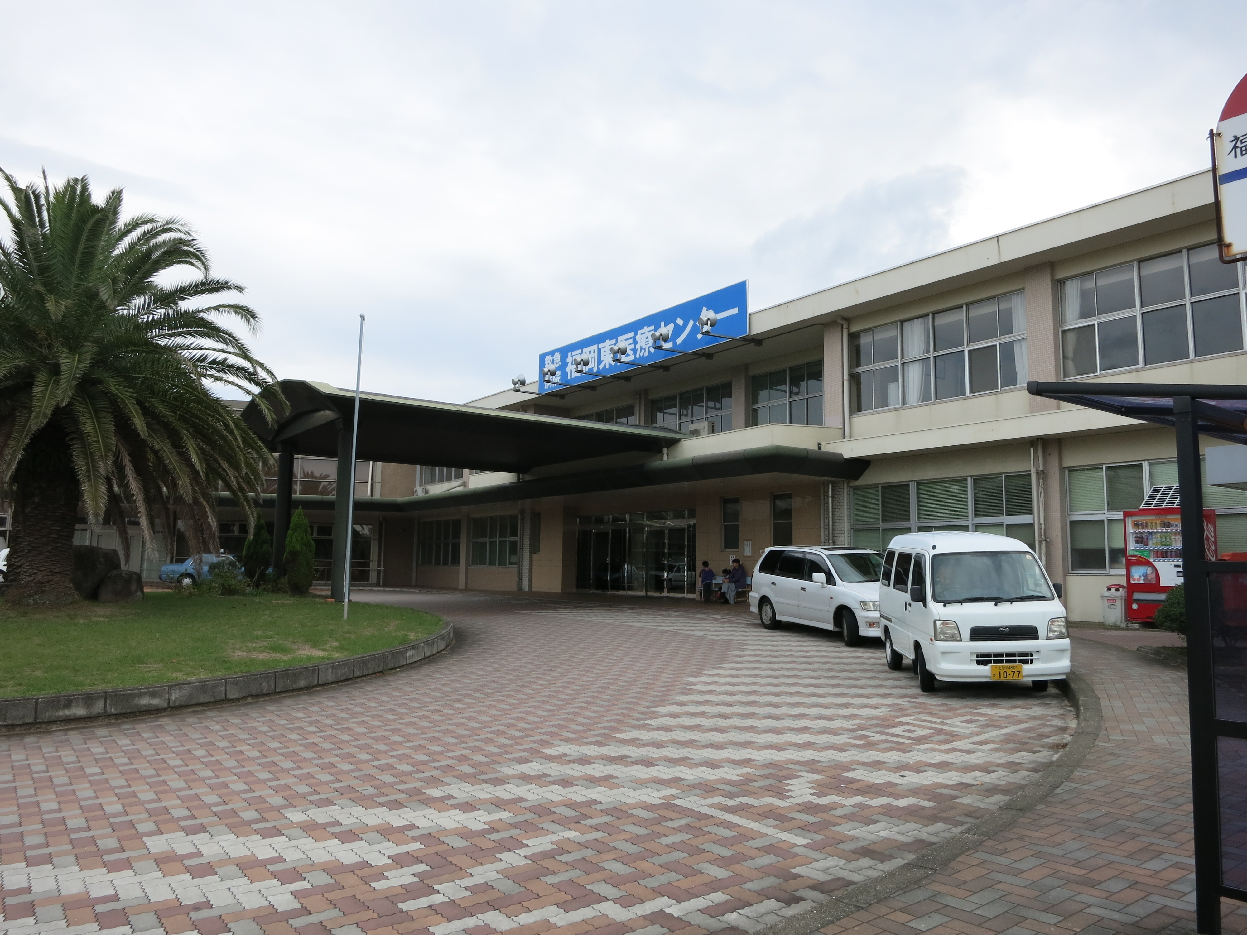 National Hospital Organization Fukuoka Higashi Medical Center